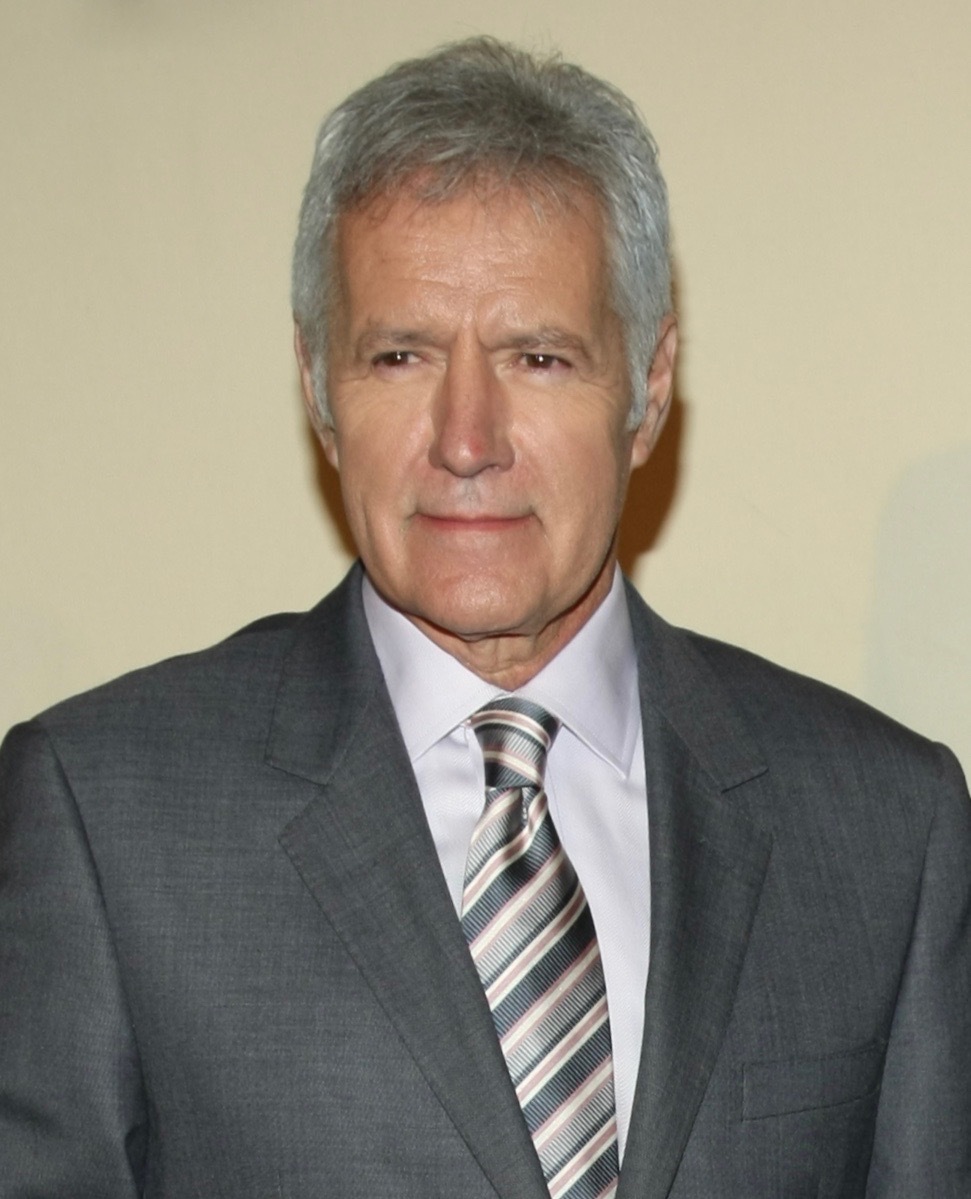 Alex Trebek in 2012, after the 71st Annual Peabody Awards ceremony, where he and "Jeopardy!" executive producer Harry Friedman accepted an award for the long-running game show. PHOTO CREDIT: ANDERS KRUSBERG / PEABODY AWARDS